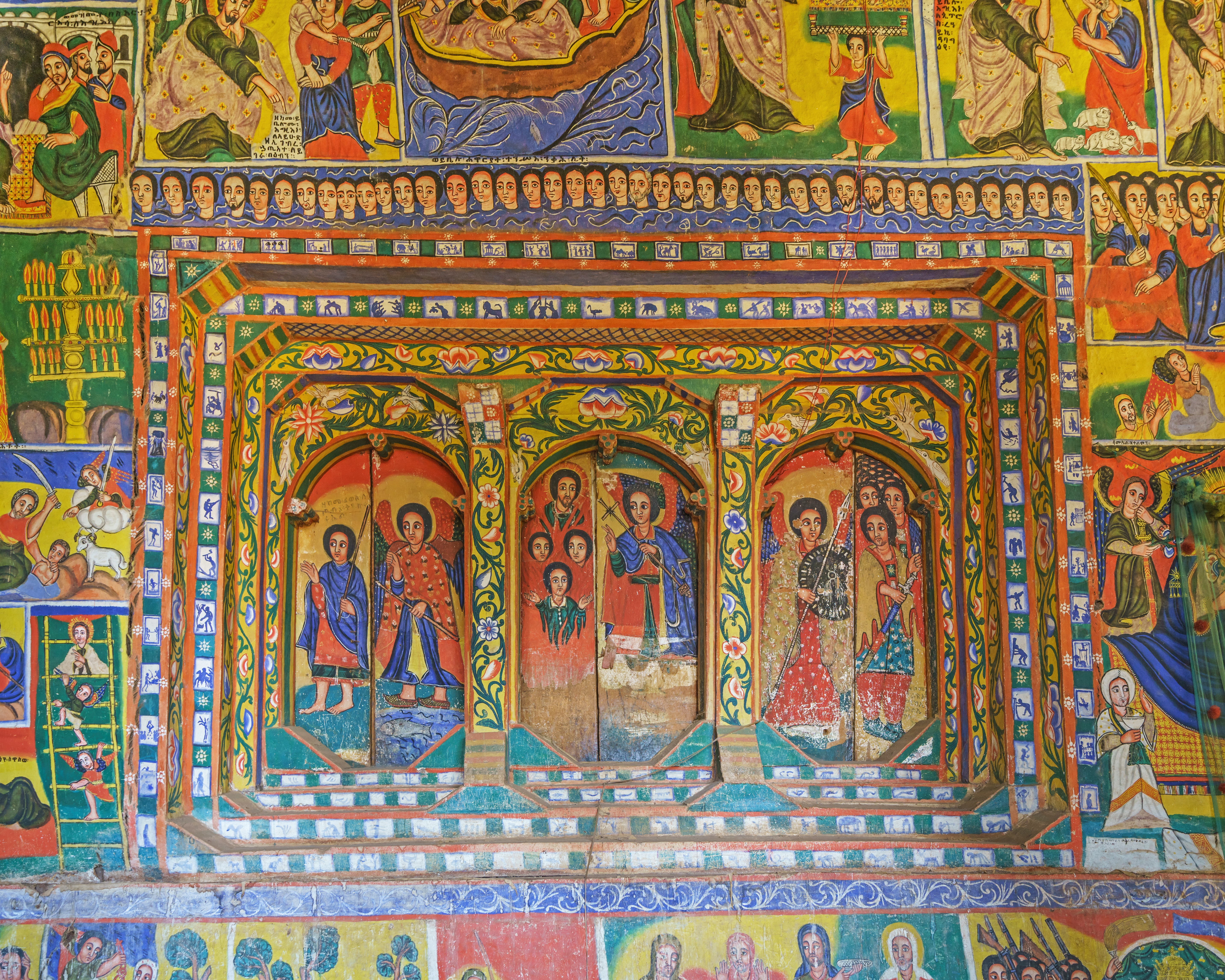 Ura Kidane Mihret Monastery – Lake Tana near Bahir Dar, Ethiopia